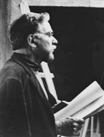 Pedro Asquini- actor argentino